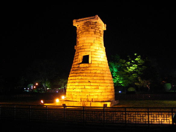 Cheomseongdae observatory at night, Gyeongju, South Korea